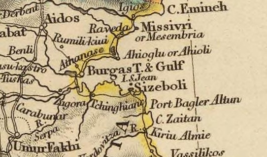 Balkans_1832